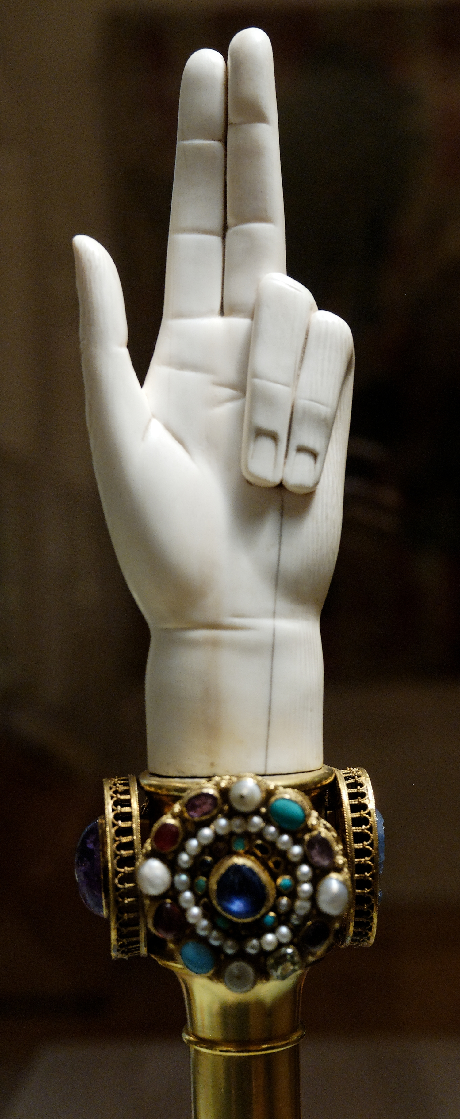 Hand of justice, made for the crowning of Napoléon I, including the so-called ring of St. Denis from the Treasure of Saint-Denis. Ivory, copper, gold and cameos, 1804 .